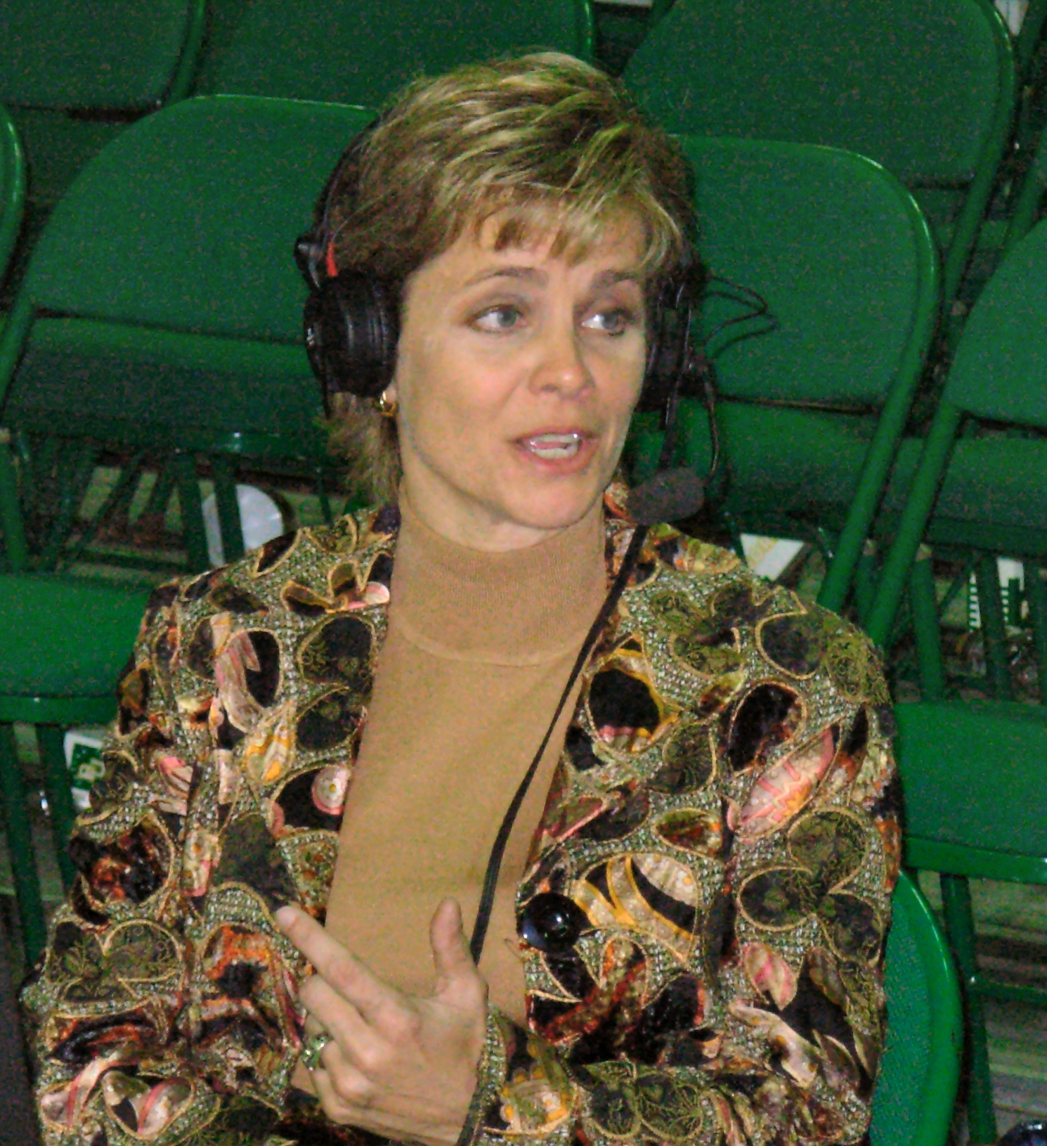 A picture of Kim Mulkey doing a post game interview following a game against Colorado on Jan. 22, 2006.